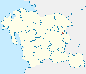 Map of Yeongi County in South Korea